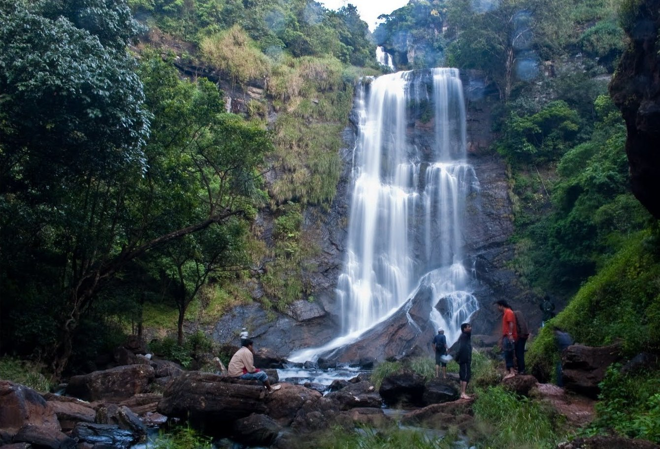 View of the majestic Hebbe falls in Kemmangundi